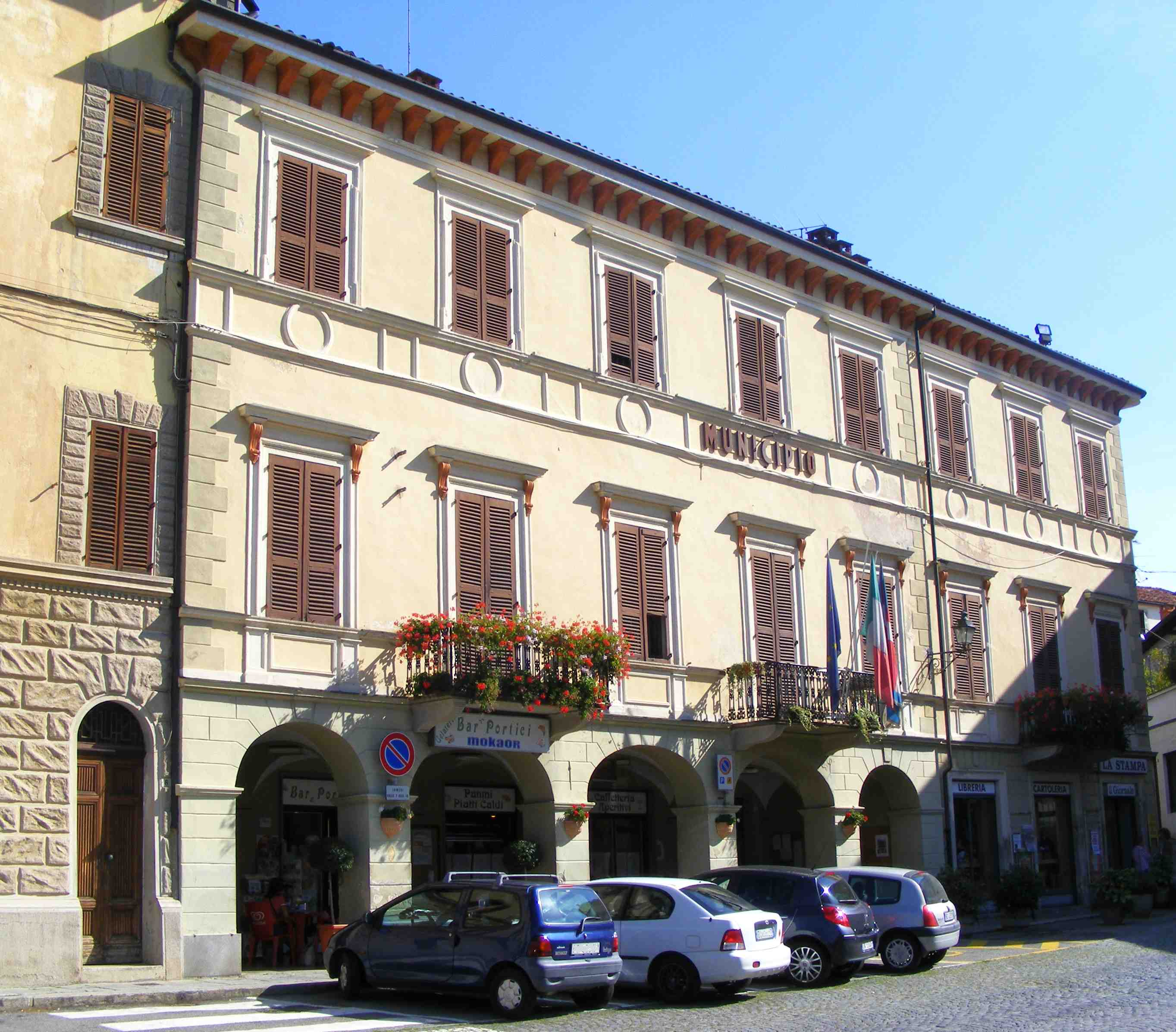 Mosso (BI, Italy): town hall